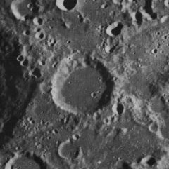 Aston crater, on the moon.